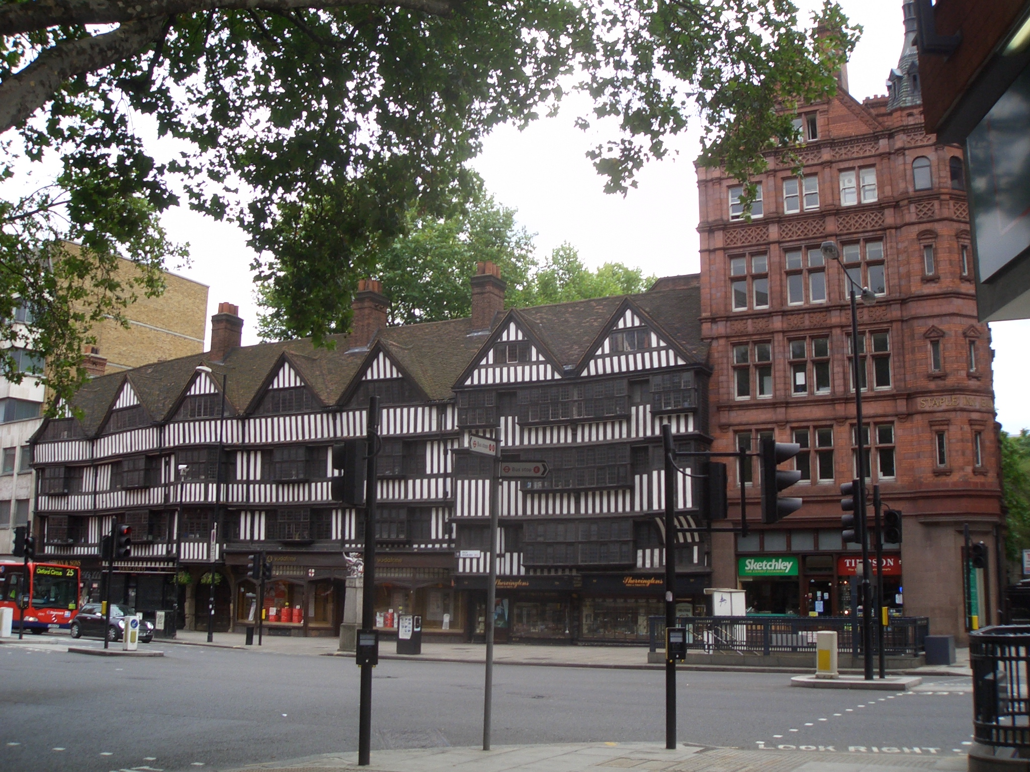 Staple Inn on High Holborn, London, UK. Built in 1586, it is one of Central London's few remaining Tudor buildings.